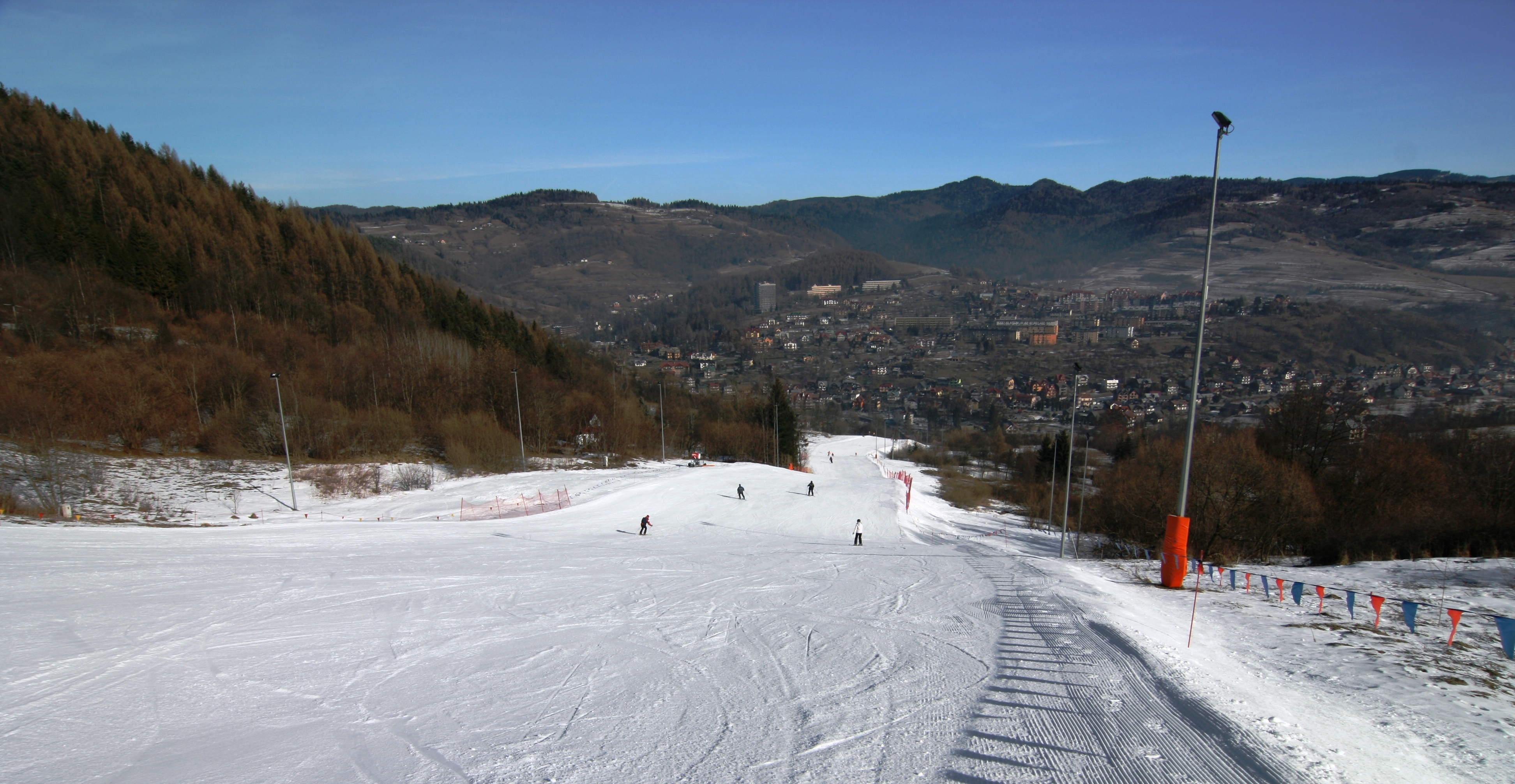 Palenica II ski trail in Palenica ski area